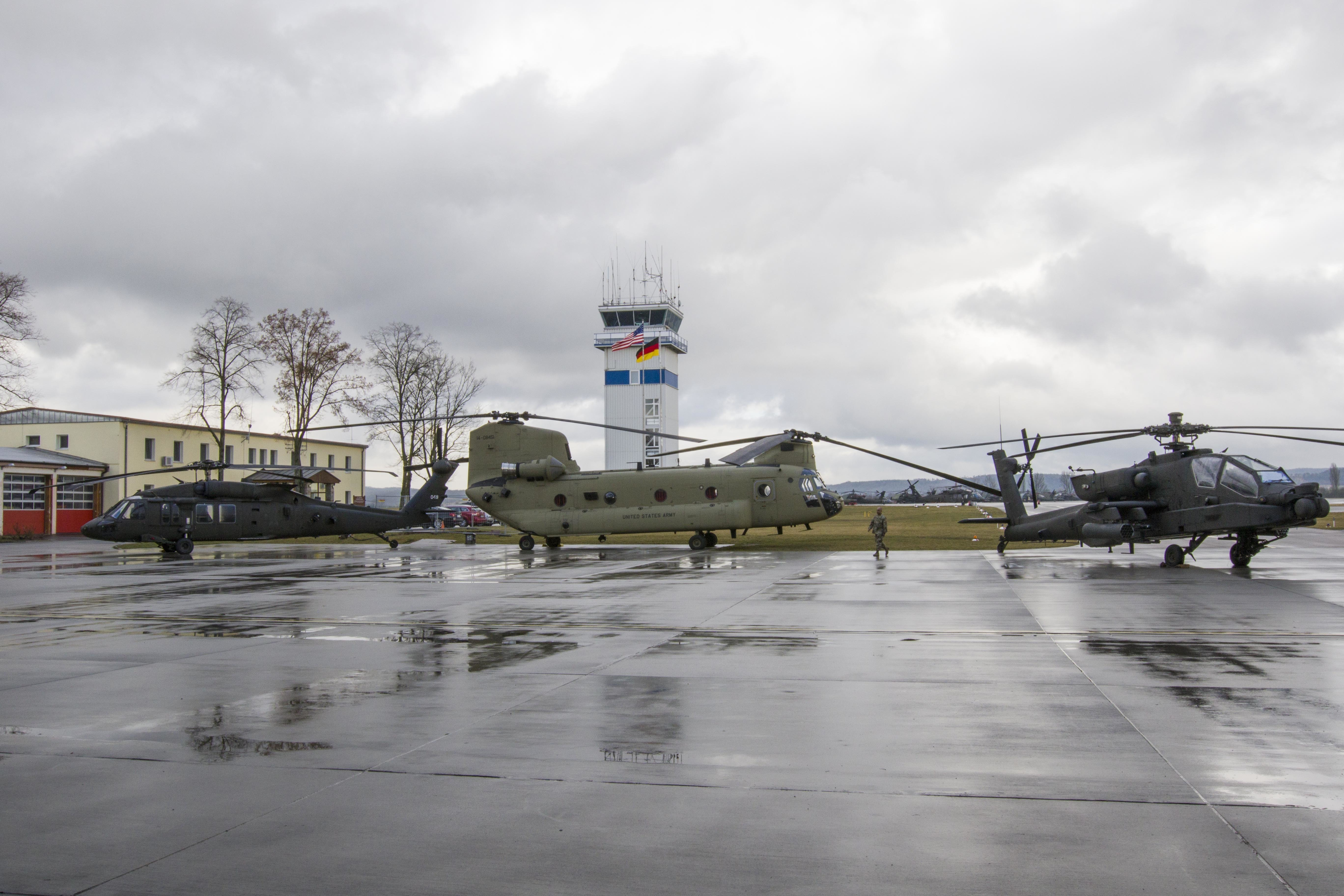 10th Combat Aviation Brigade aircraft are staged outside during the Hand Over/Take Over ceremony held at the Illesheim Army Airbase, Germany, on March 9 2017. The 10th Combat Aviation Brigade is the first rotational aviation brigade assigned to Atlantic Resolve, a NATO operation designed to increase interoperability among allies, demonstrate the U.S.'s commitment to its partners, and deter foreign aggression.